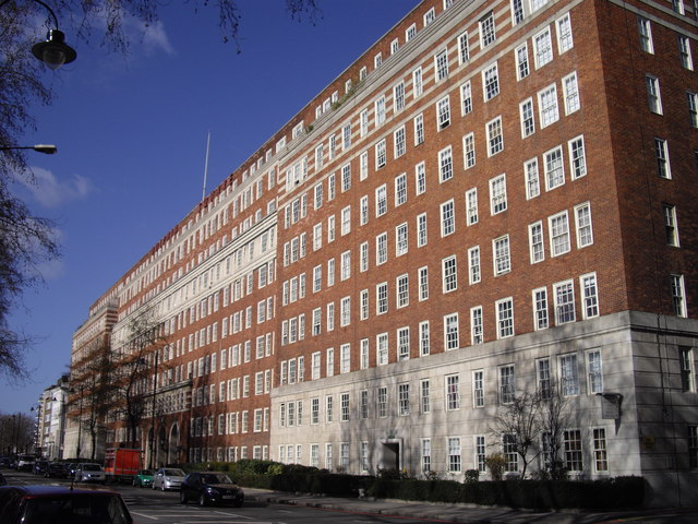 Dolphin Square Taken from Grosvenor Road